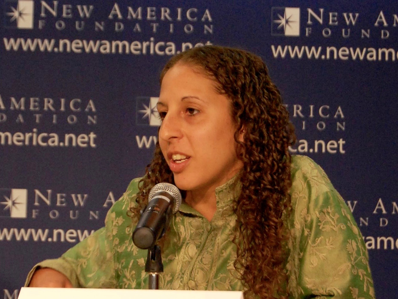 Farah Stockman, then a foreign affairs reporter for The Boston Globe, in 2009